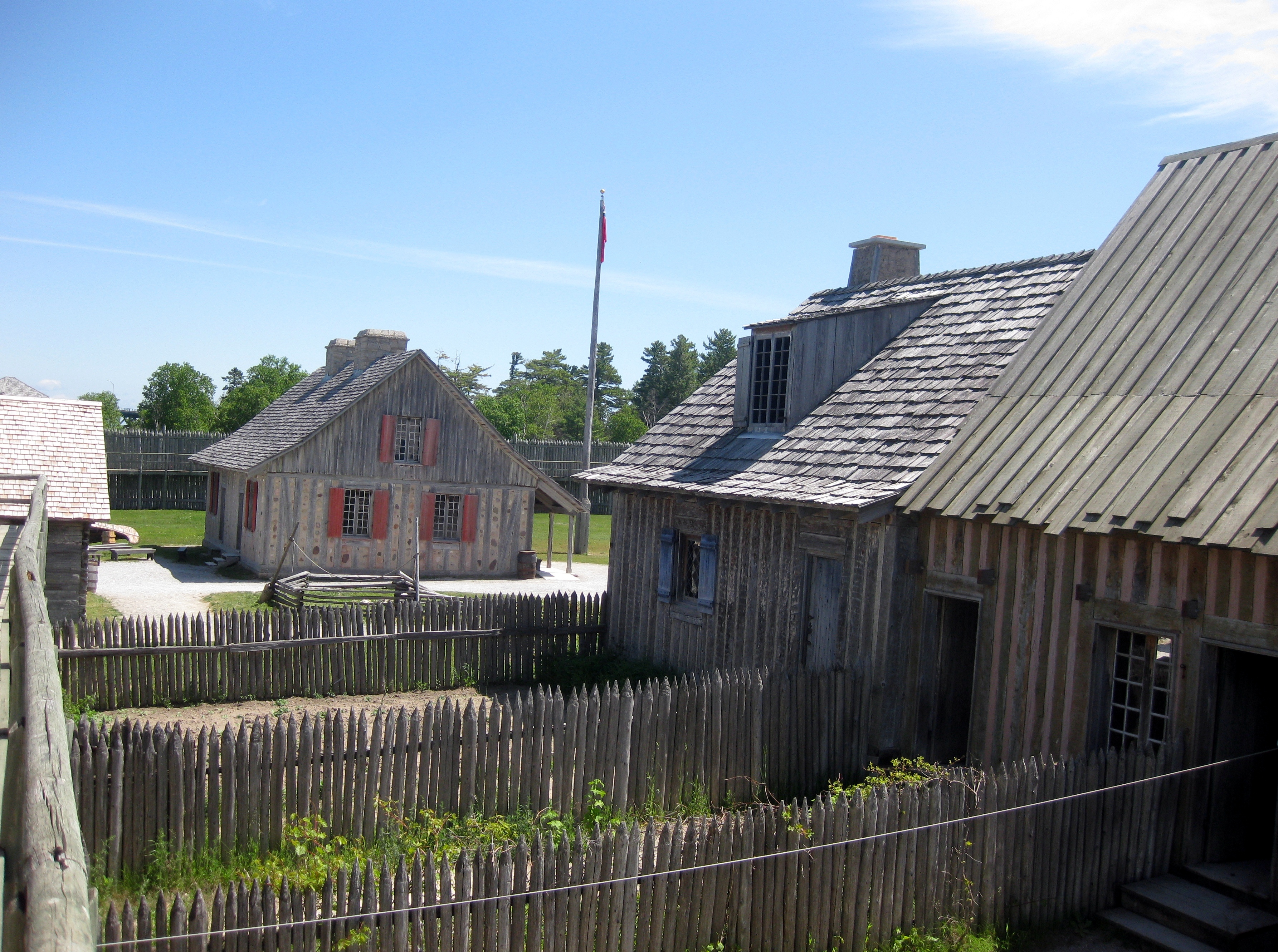 Photo of the backyards at Fort Michilimackinac.